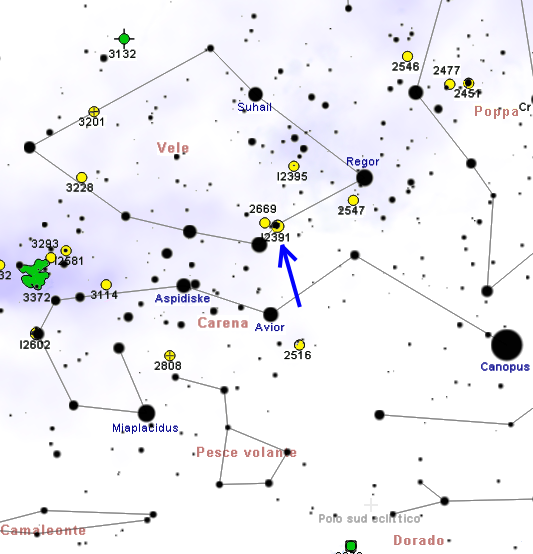 IC 2391